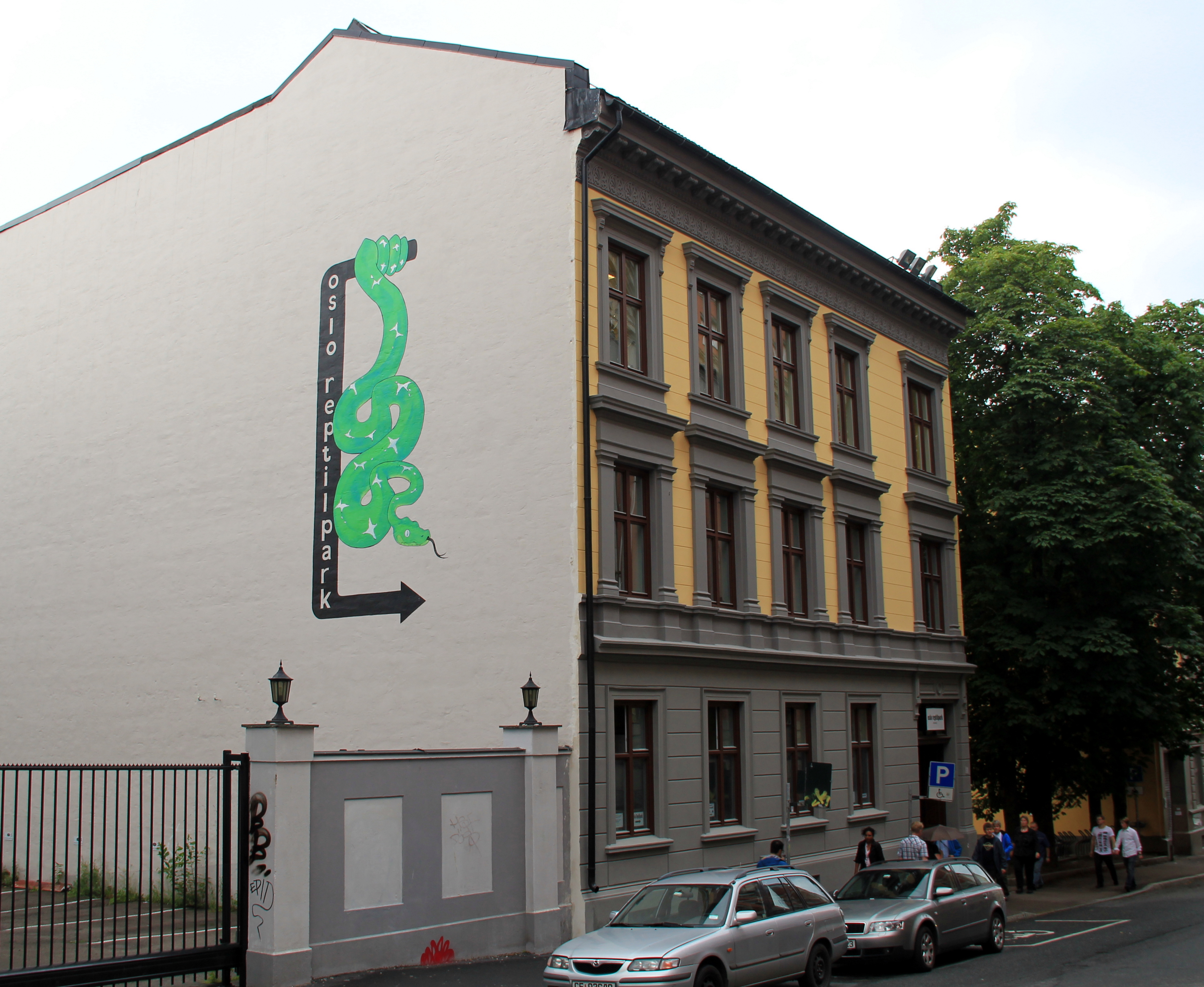 Oslo reptilparkNorsk bokmål: Gunderudgården i St. Olavs gate 2 med Oslo reptilpark. Arkitekt: Anselm Liljeström (1882).